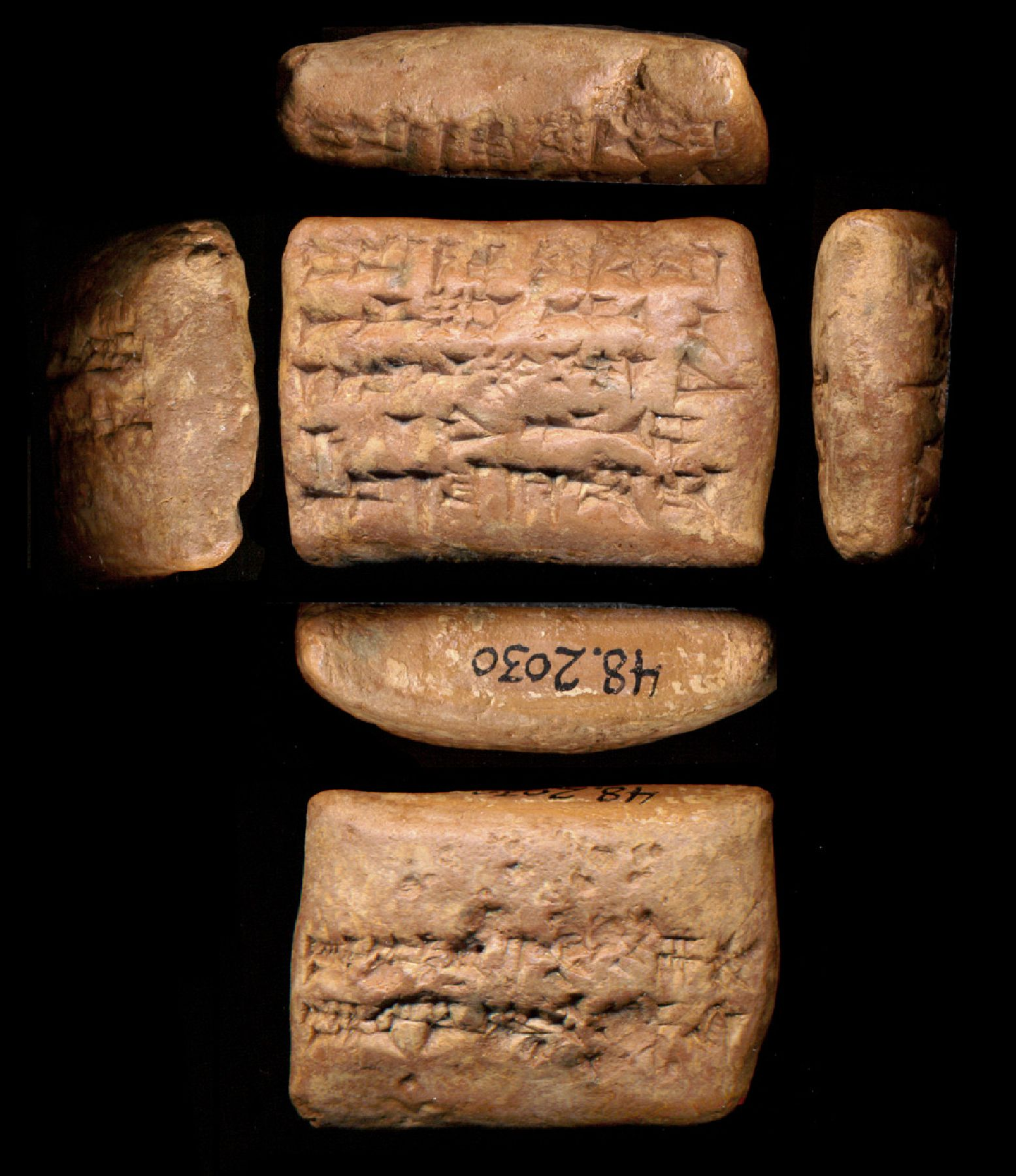 This small tablet was part of the economic archives of the temple of the sky-god Anu and fertility-goddess Ishtar at Uruk. It records the stipend paid to Ardi-Inninni, son of Ibni-Ishtar of the business firm of Bel-ili on the 2nd day of the month of Tebet in the 6th year of the reign of King Nabonidus (ca. 549 BC).